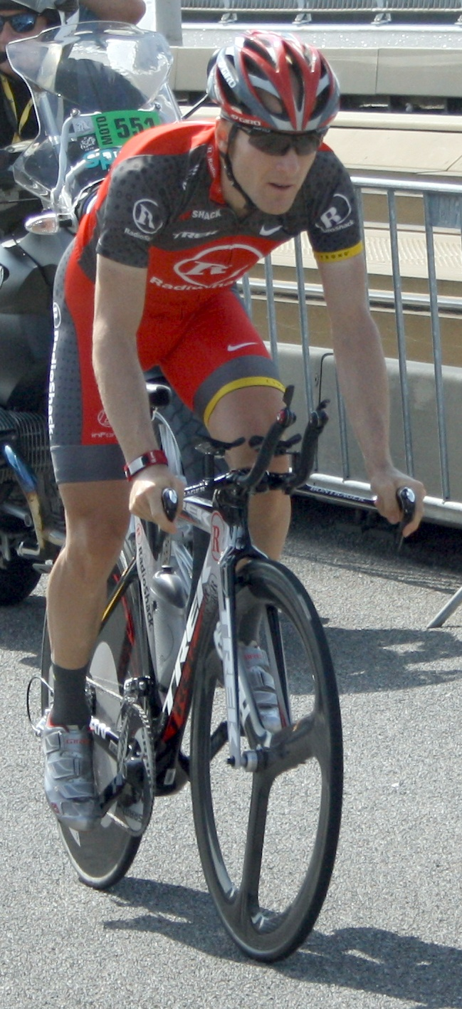 Levi Leipheimer training for the prologue of the 2010 Tour de France in Rotterdam